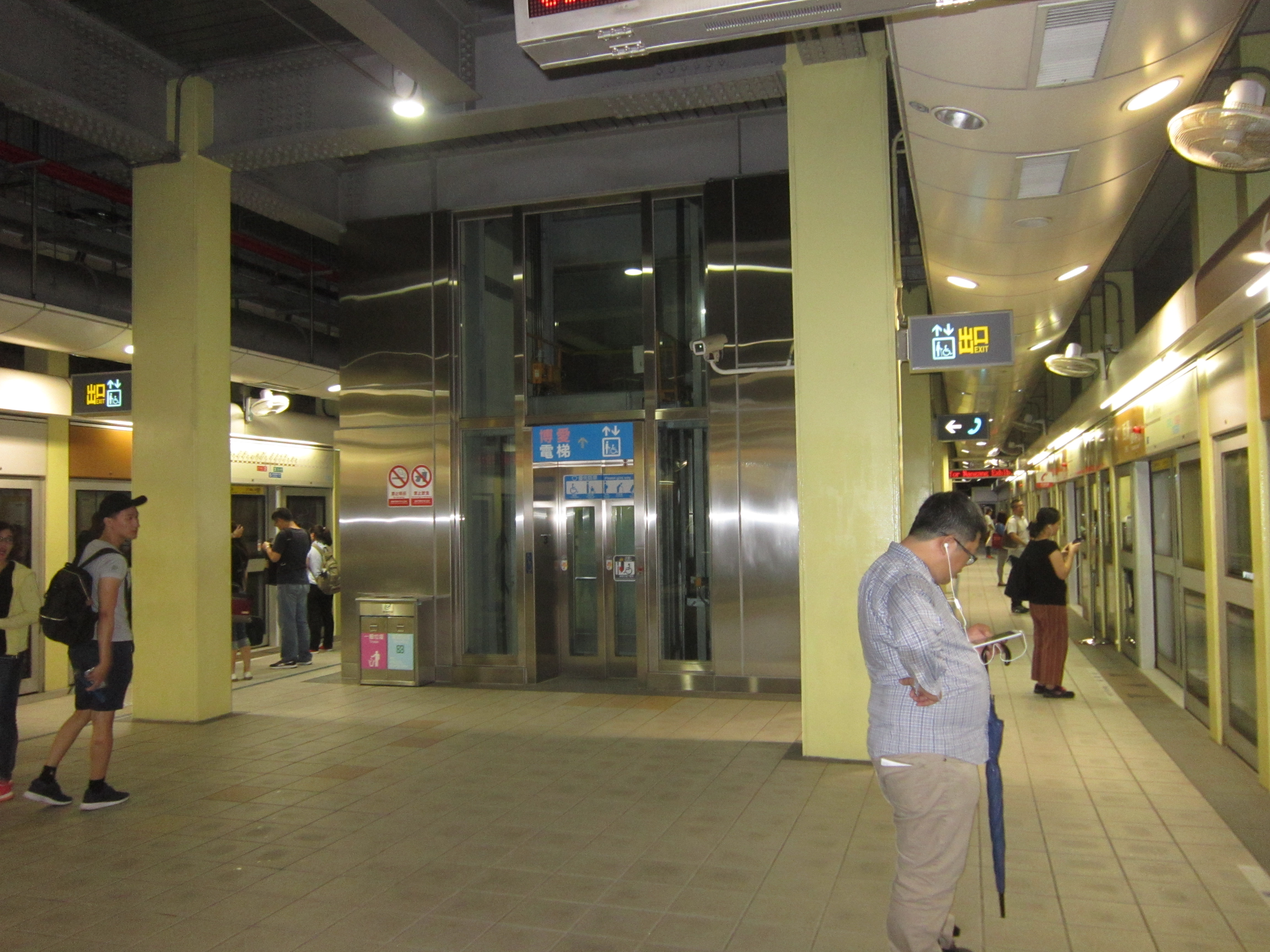 Xihu_Station-1